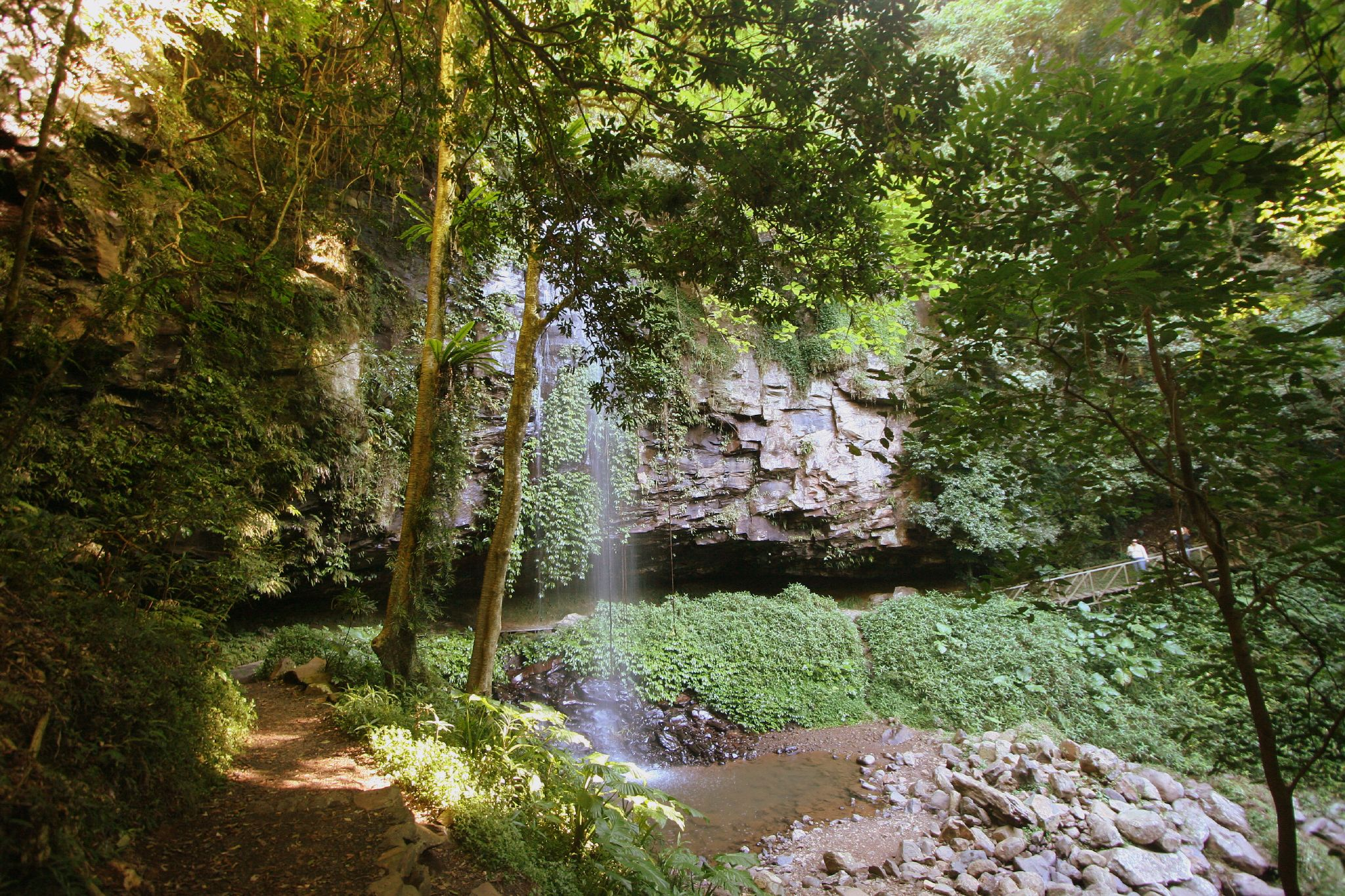 Dorrigo National Park